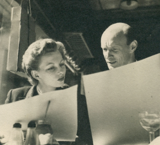 This is a photograph taken in 1952 of the screenwriter William Templeton in conversation with the actress Jennifer Howard. Jennifer Howard starred in the TV series 'Checkmate'. William Templeton was one of its episodic scriptwriters.